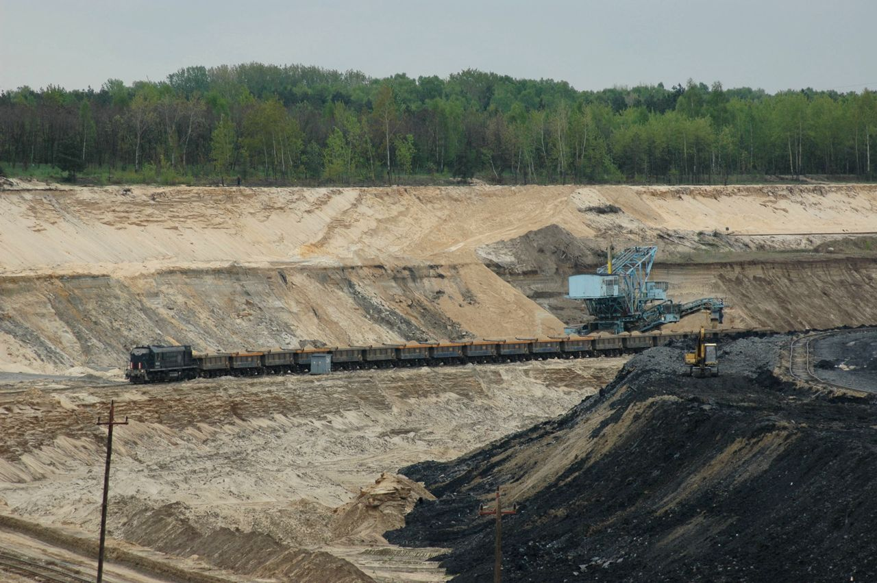 Sand mine Bór Wschód near Sosnowiec, Poland.